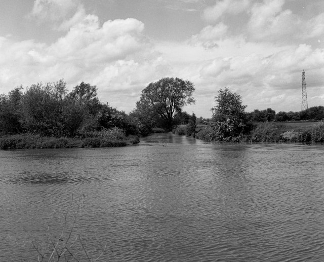 Mouth of the Cassington Canal, River Thames The Cassington Canal joins the River Thames a few hundred yards north of the Evenlode outfall. It was a straight waterway, not much more than half a mile in length, that was dug in an attempt to avoid the treacherous shallows in the lowest part of the Evenlode.